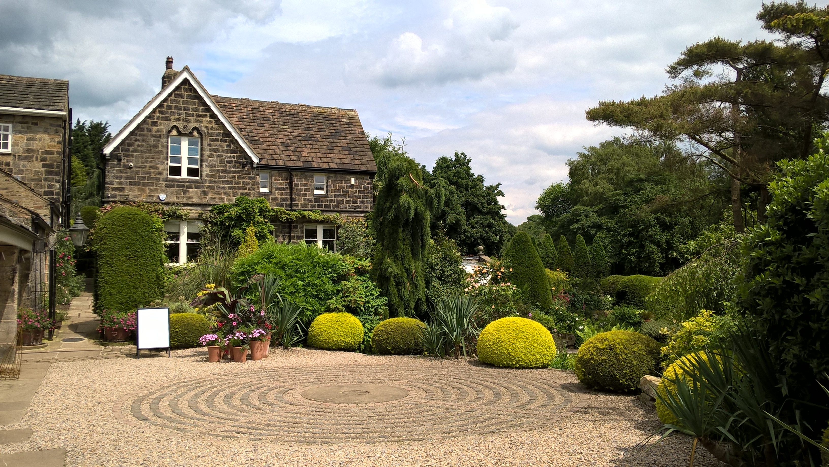 Entrance to York Gate Garden, Back Church Lane, Adel, Leeds LS16 8DW